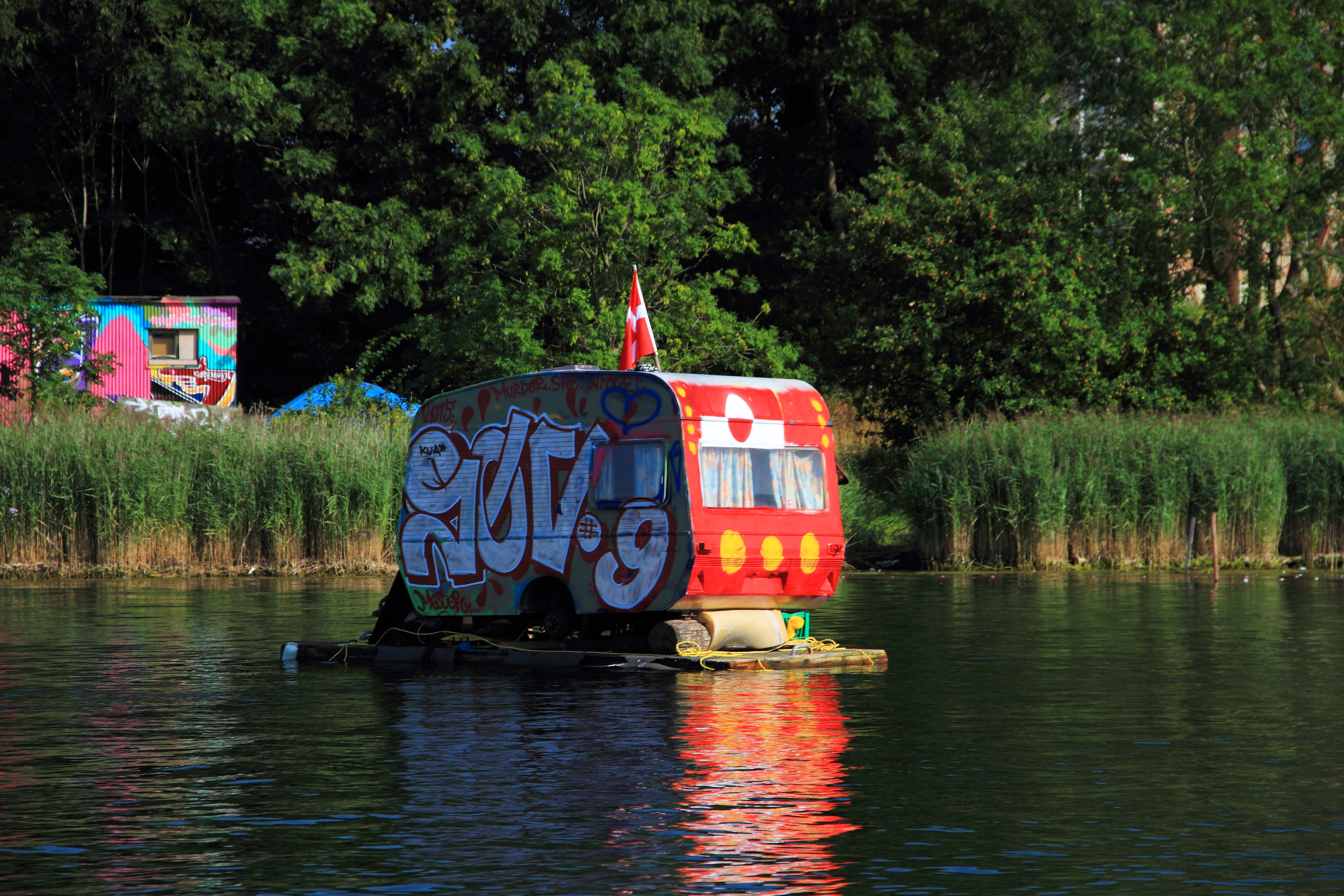 Houseboat in Freetown Christiania, Copenhagen.